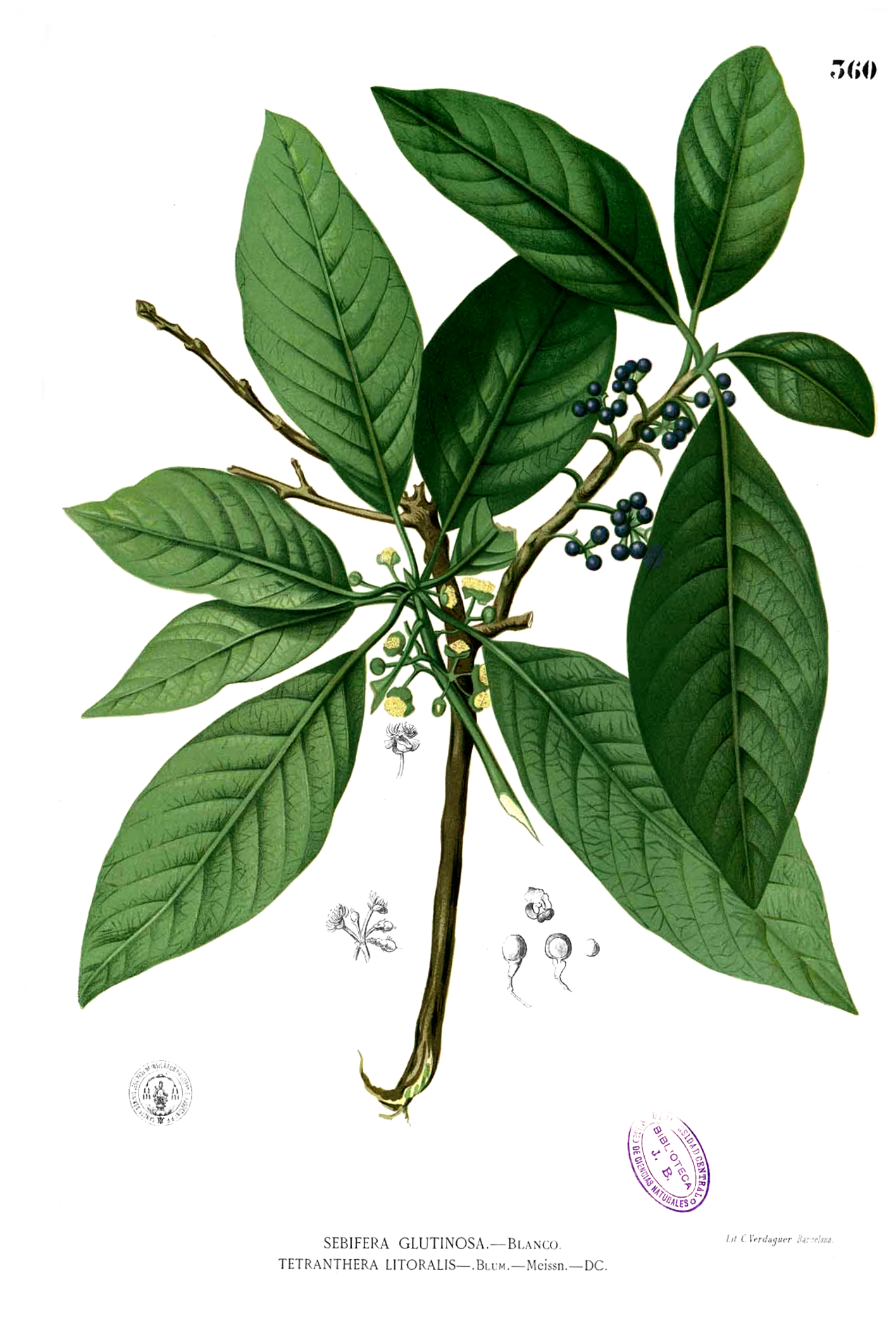 Plate from book